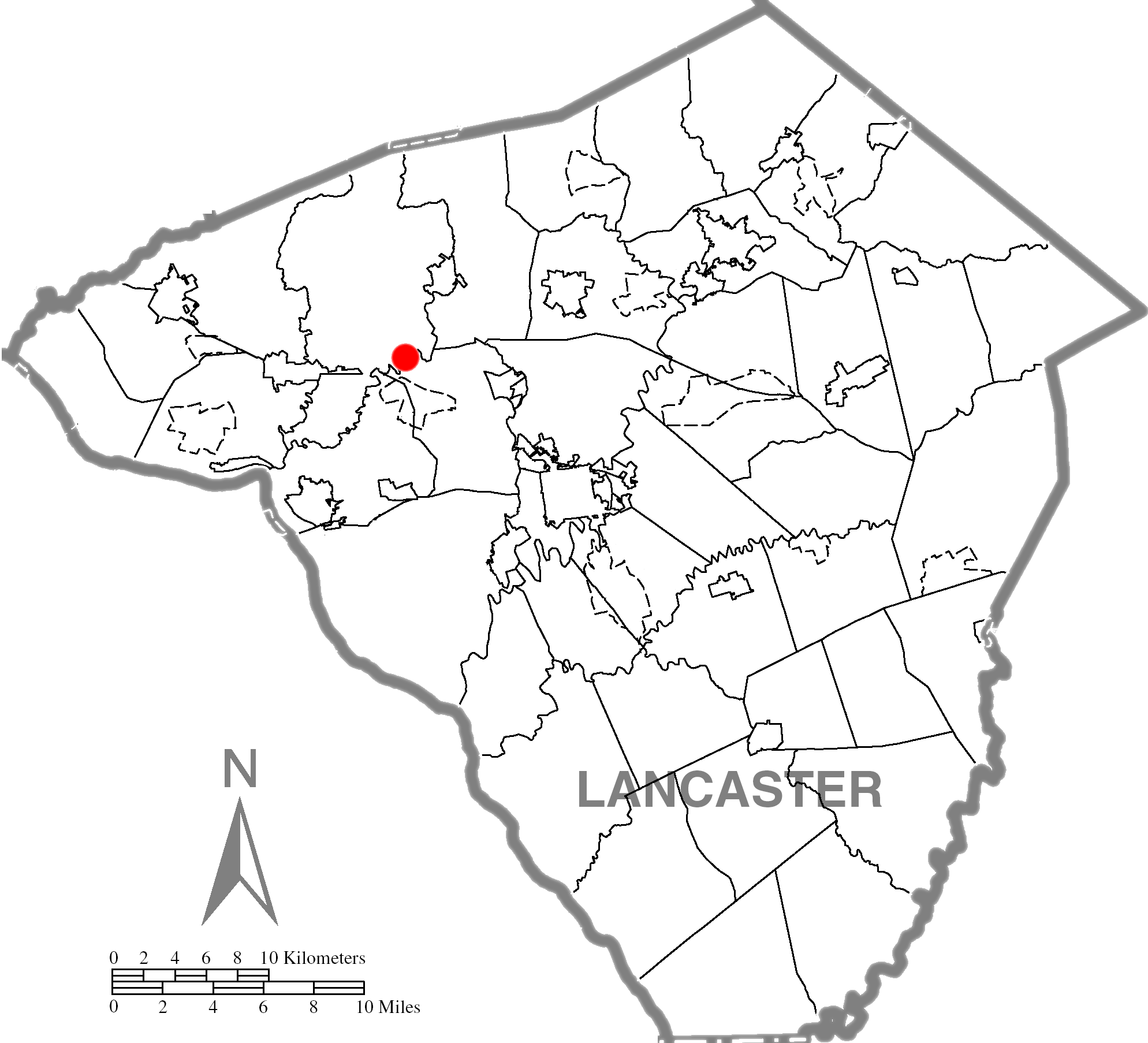 Lancaster County dot map of the Schenck's Mill Covered Bridge.